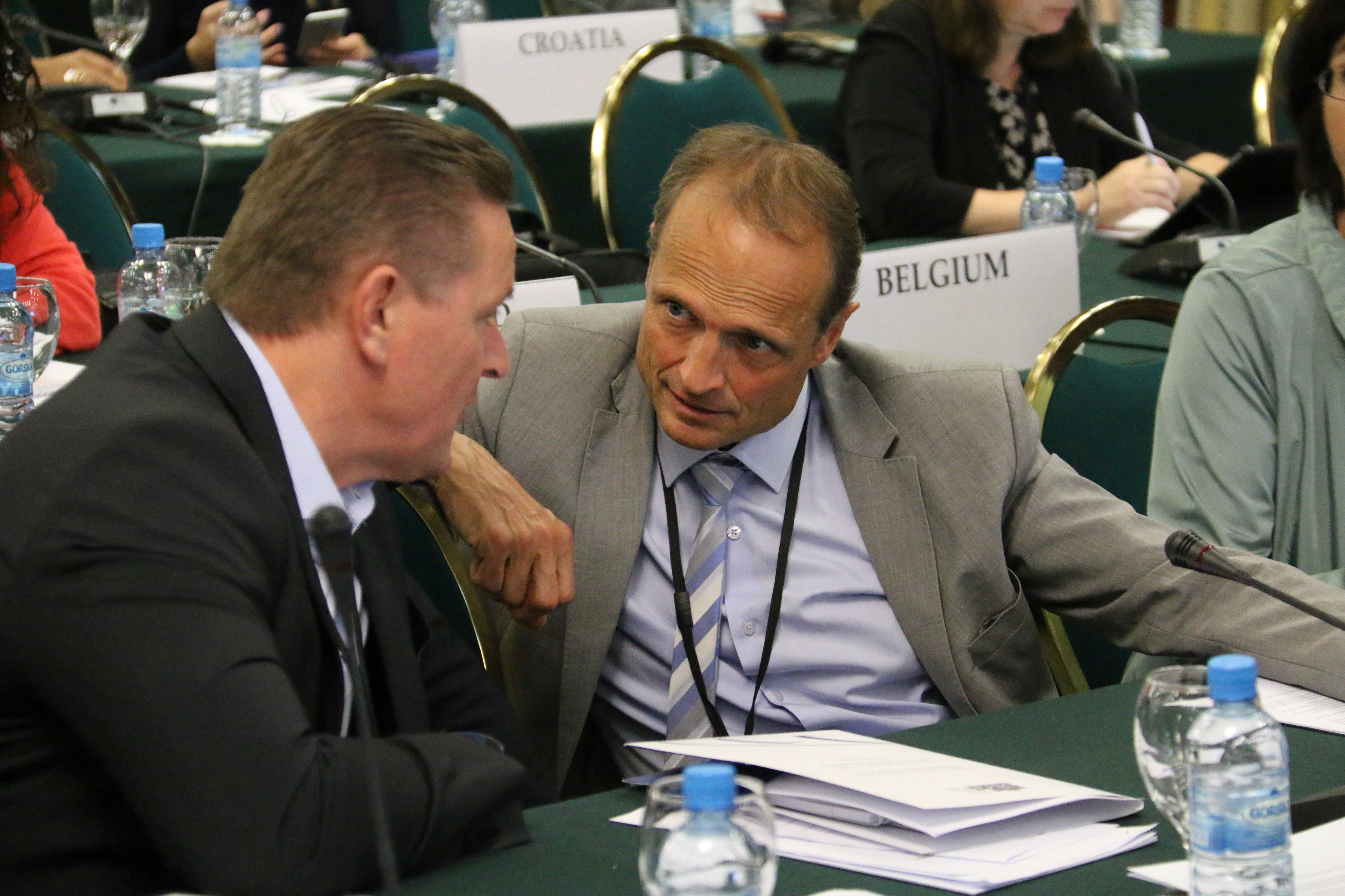 Roman Haider and Wolfgang Gerstl